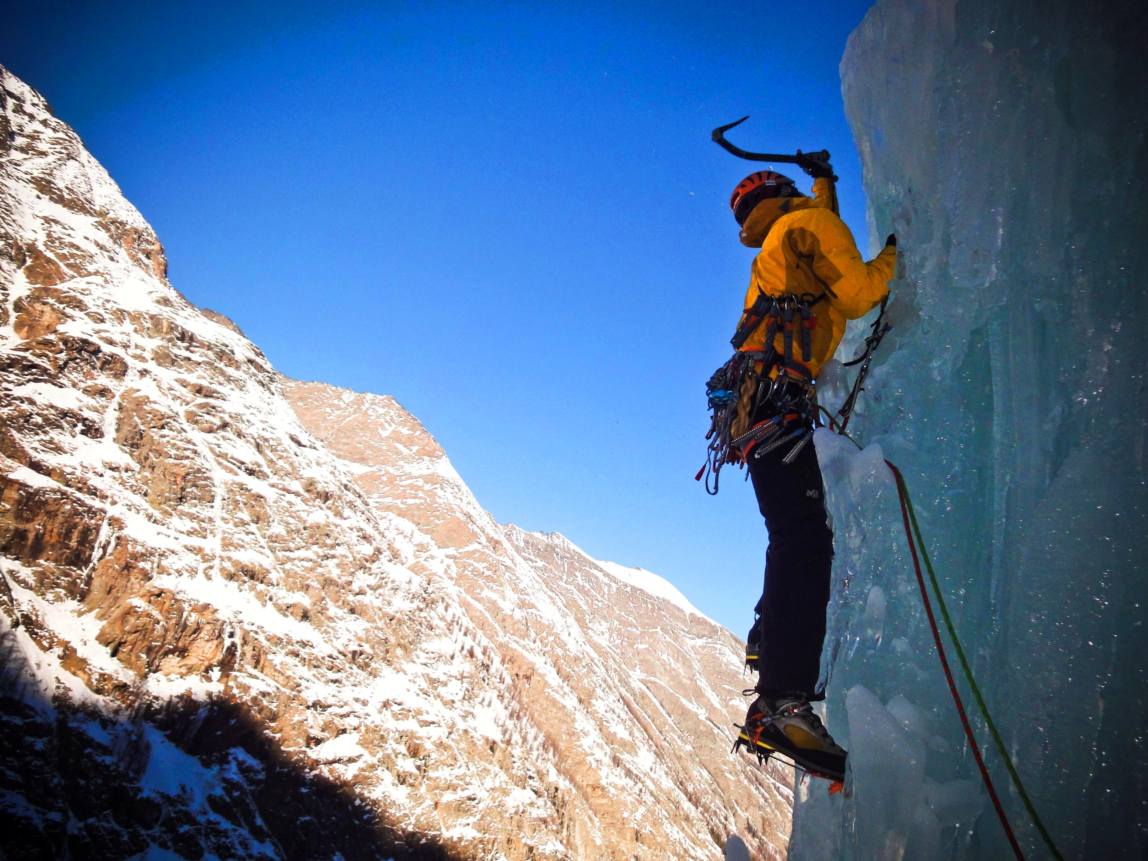 Kristoffer Szilas climbing Repentance Super (WI6) in Cogne. Photo by Ramon Marin.